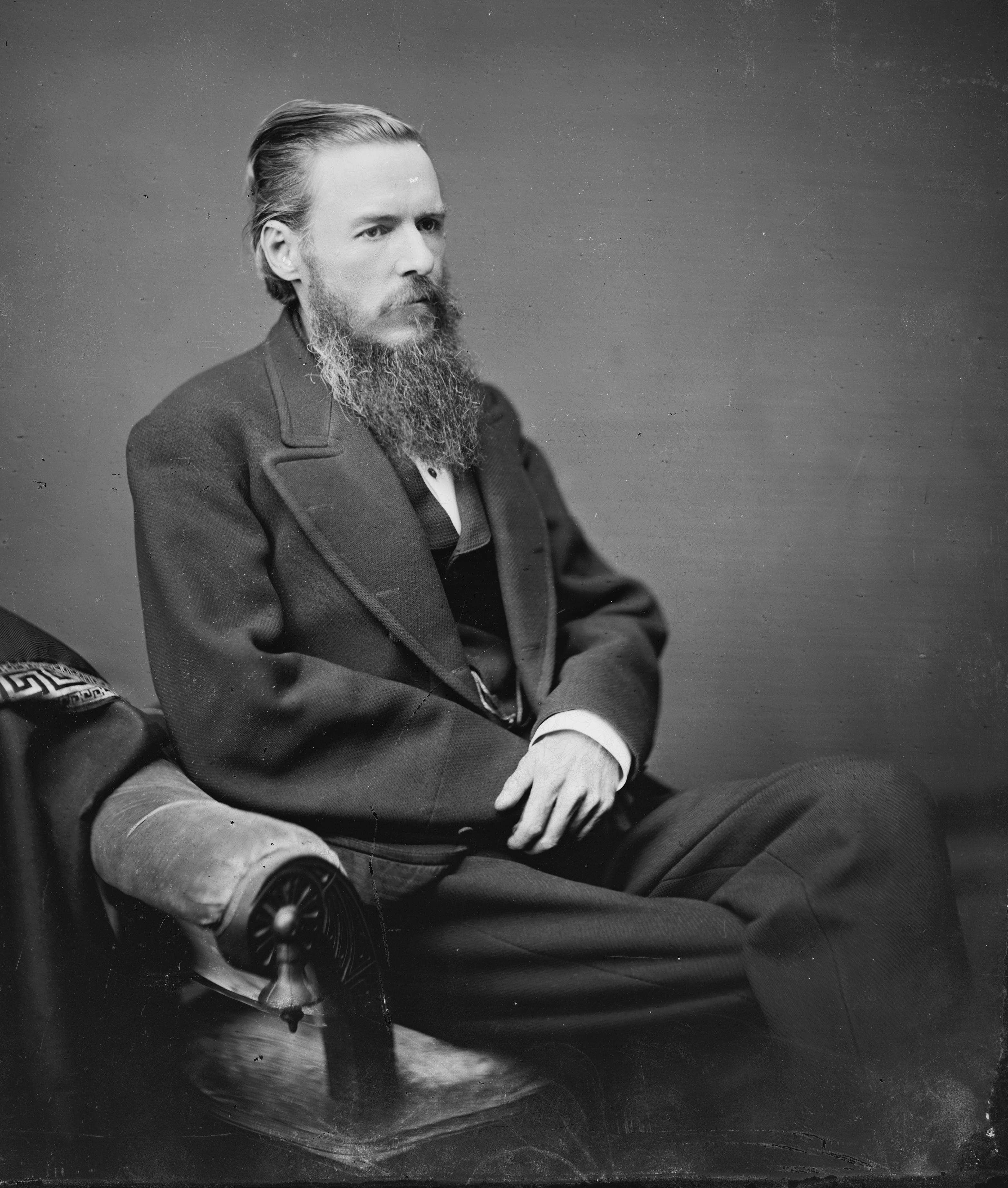 Michael C. Kerr. Library of Congress description: "Kerr, Hon. Michael C. of Ind. Speaker of H of R"